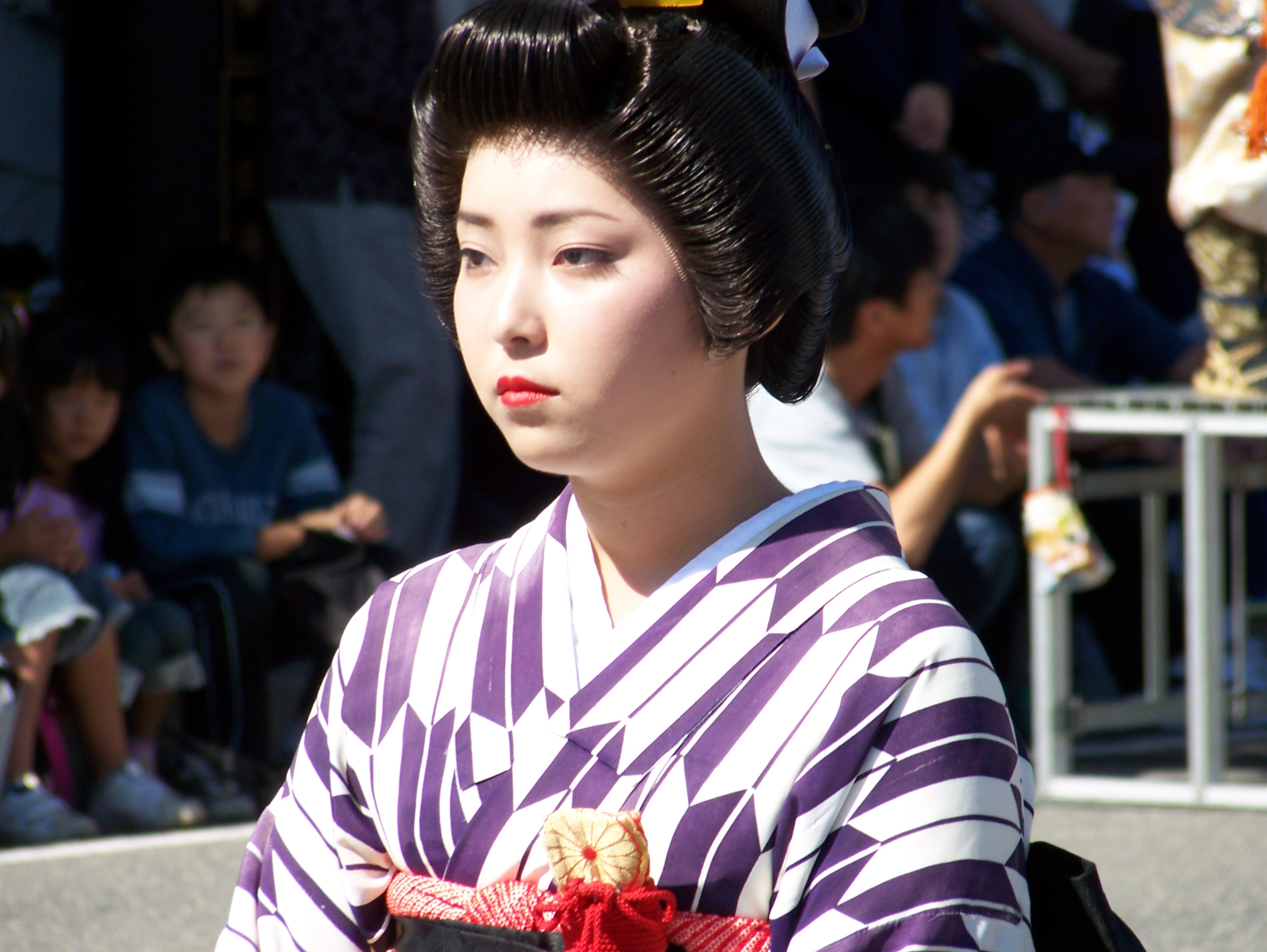 Girl in kimono in the 2006 Aizu Clan Parade in Aizu-Wakamatsu, Fukushima Prefecture, Japan. Photo by uploader. Taken 27 September 2006.